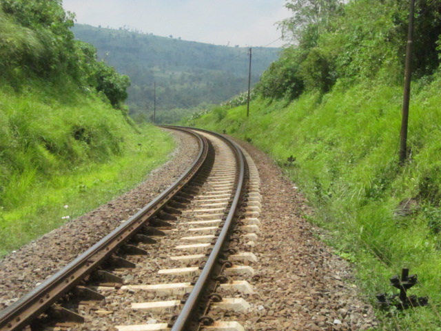 Guard rail at very sharp railway track curves in West Java, Indonesia.